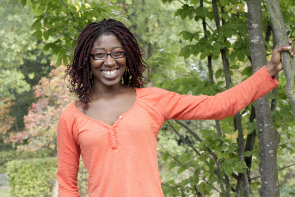 Gloria Boateng in Hamburg